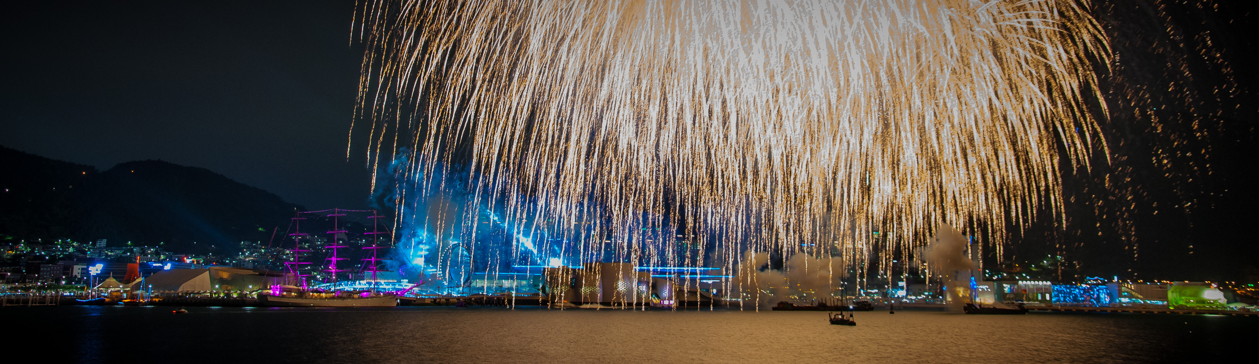 Expo 2012 Yeosu fireworks for the official opening ceremony, as seen from the Odongdo Island.